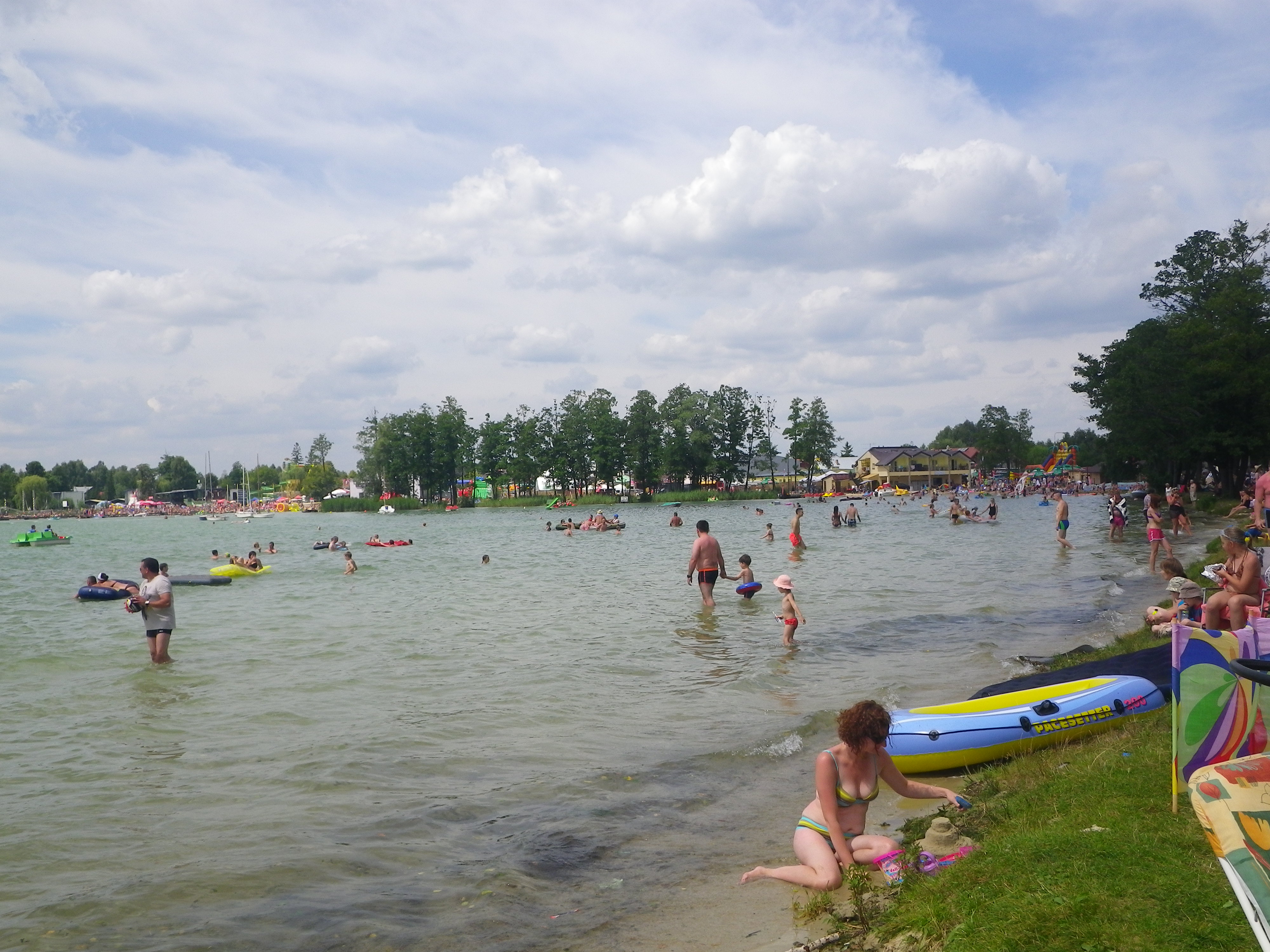 Białe lake in Okuninka, Poland